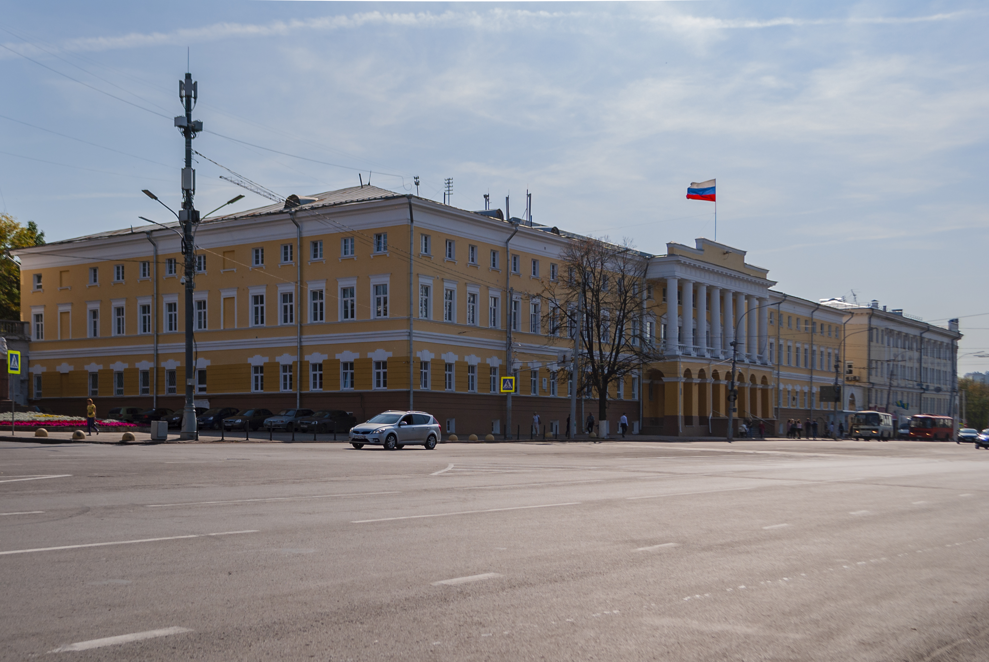 Nizhny Novgorod State Pedagogical University. 2nd building